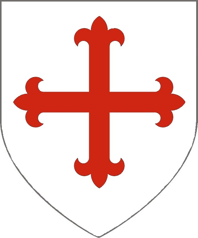 Arms of the Boroughbridge Rebel Sir William Trussell